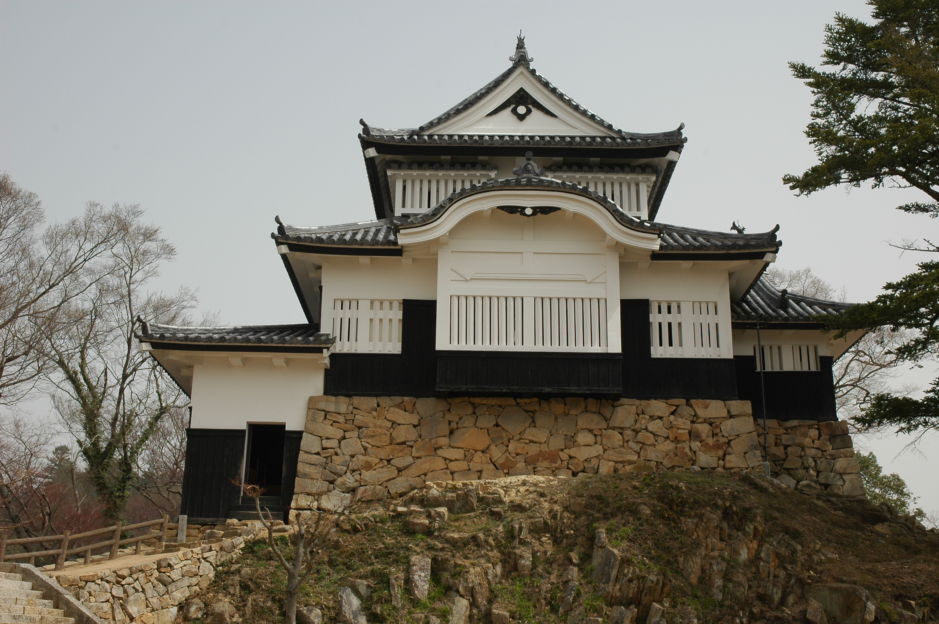 The Keep of Bitchū Matsuyama castle(Japan's national important cultural property). Takahashi City, Okayama, Japan